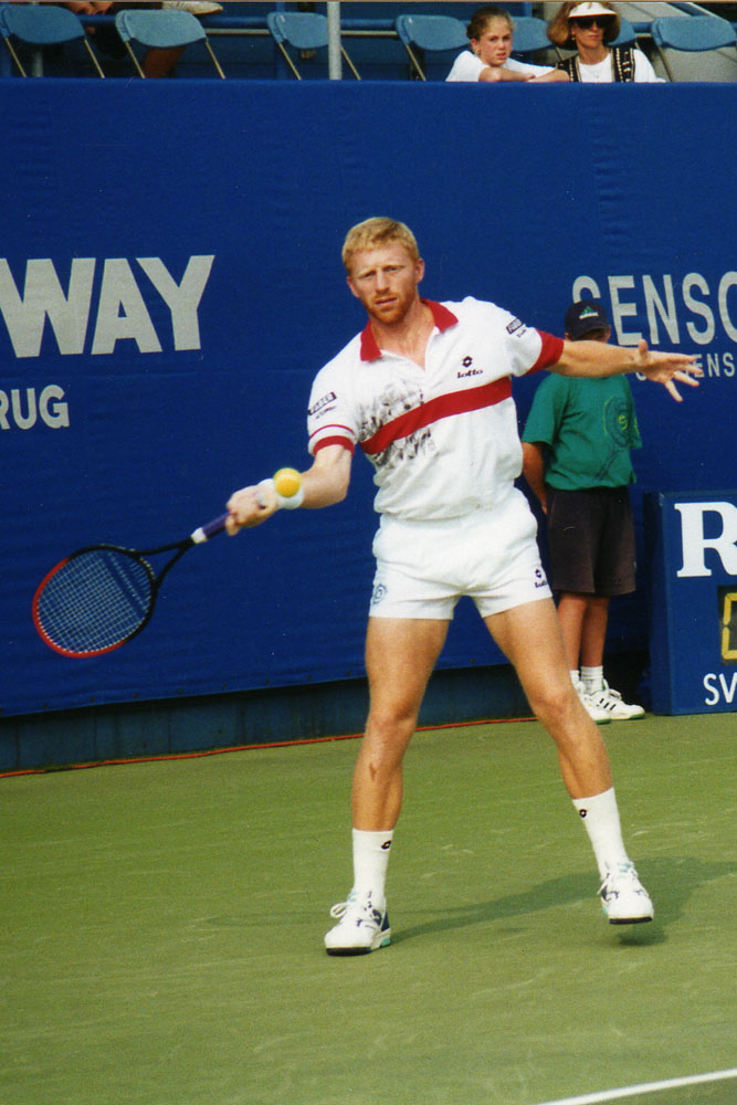 Boris Becker at the 1994 Thriftway Championships, Cincinnati, Ohio